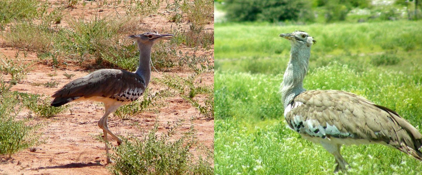 Kori Bustard - left: female at Kgalagadi National Park (South Africa) - right: male at Etosha National Park (Namibia)